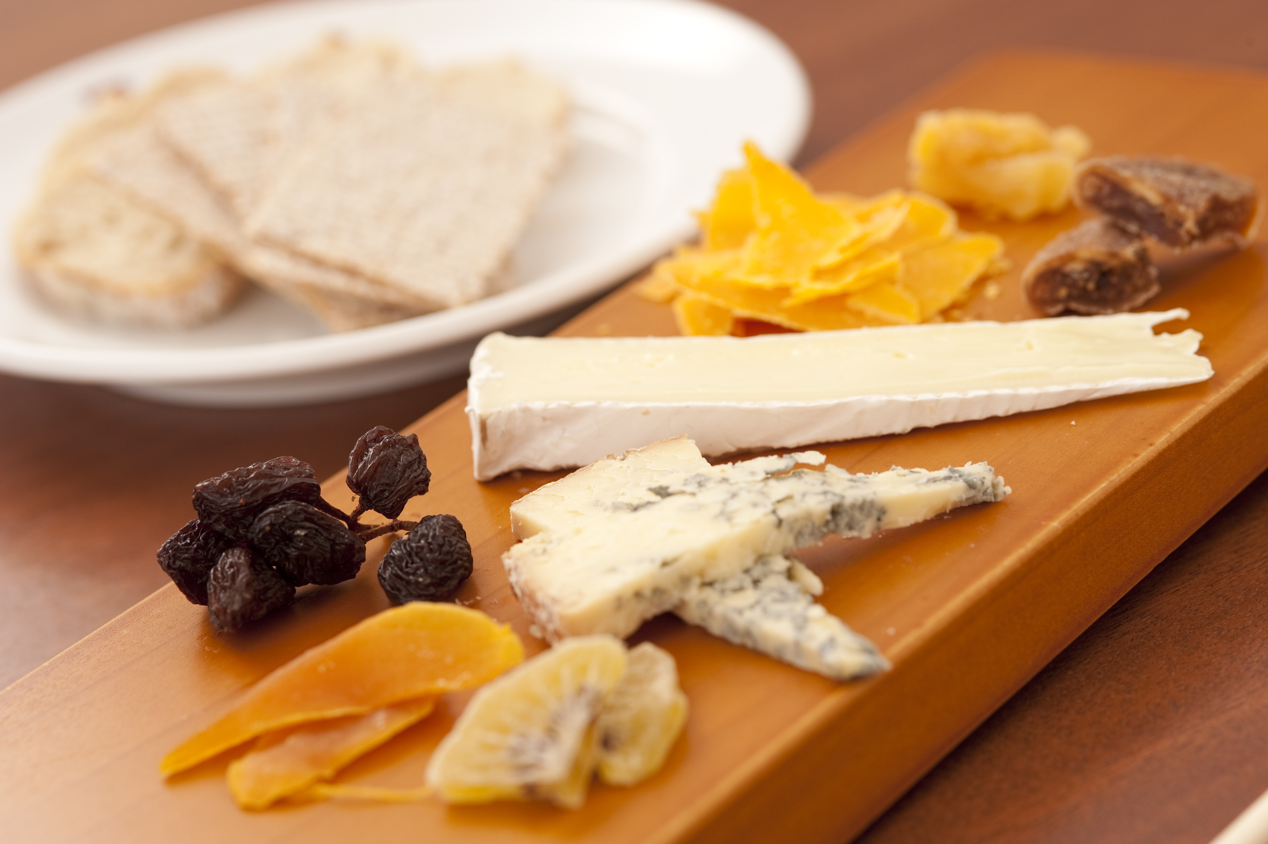 French cheeses and fruit